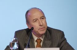 Picture of esteemed professor Thomas Pangle